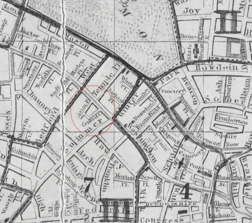 Detail of map of Boston showing Central Court and vicinity. From: "A new & complete map of the city of Boston, with part of Charlestown, Cambridge & Roxbury"